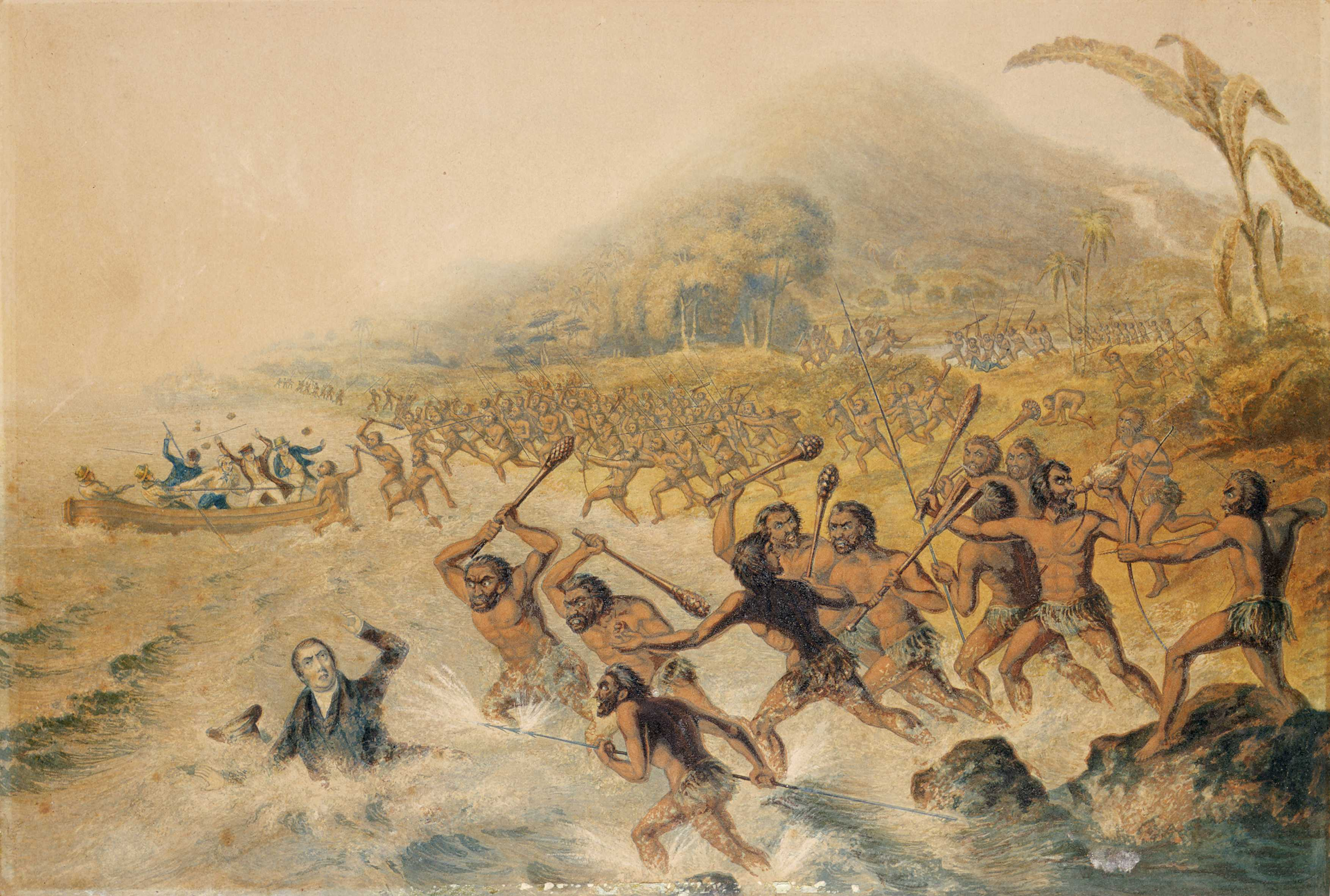 The Massacre of the Lamented Missionary, The Rev. J. Williams and Mr Harris. Rev. Williams in the water, James Harris and other missionaries in a boat in the distance, being attacked by the local people of Erromanga, Vanuatu. Published by G. Baxter, 1841. 1 colour art print(s) Coloured Baxter print 213 x 317 mm. Single art work. Reference Number: B-088-002.